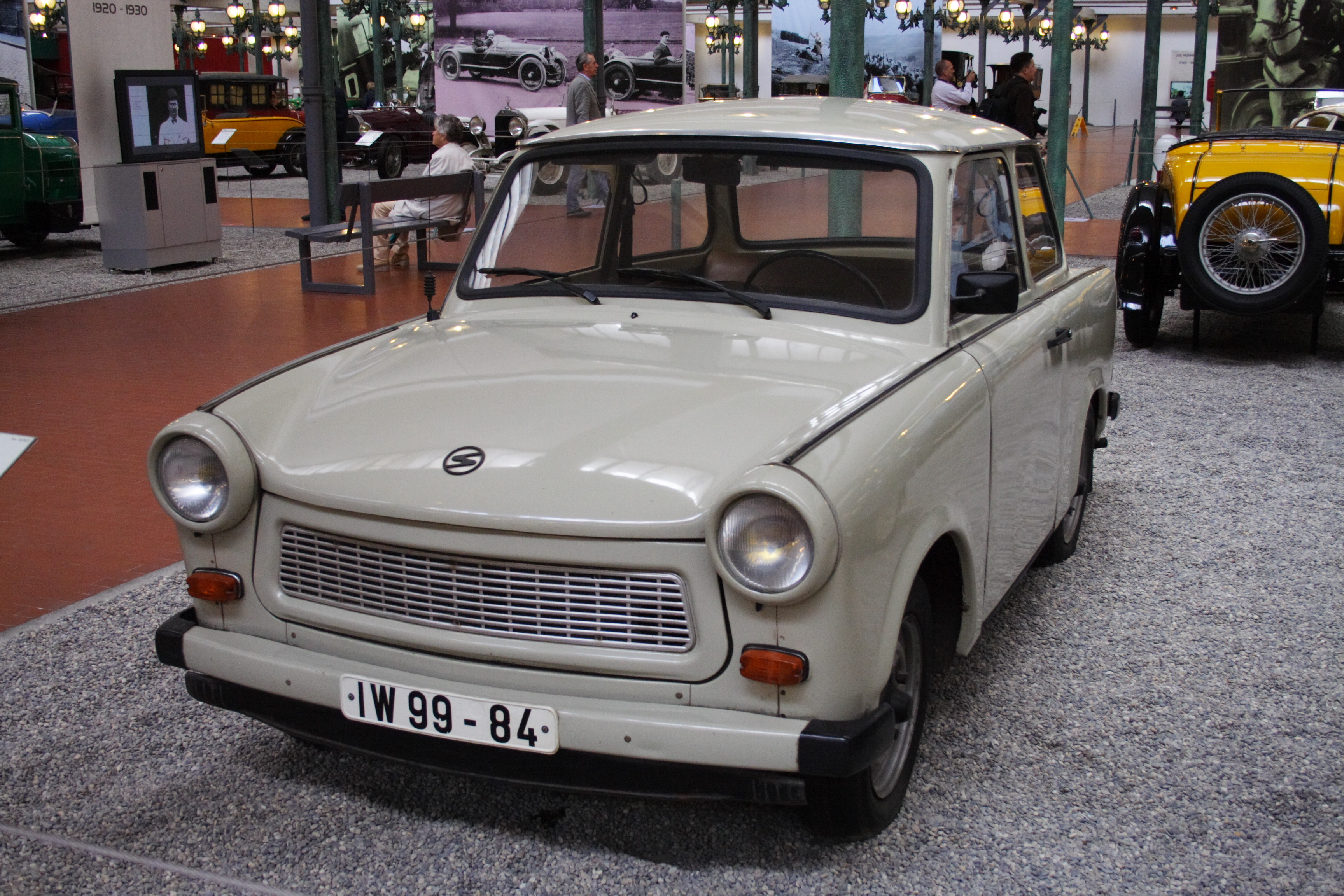 Trabant Type 601 at the Musée National de l'Automobil(Mulhouse, France)